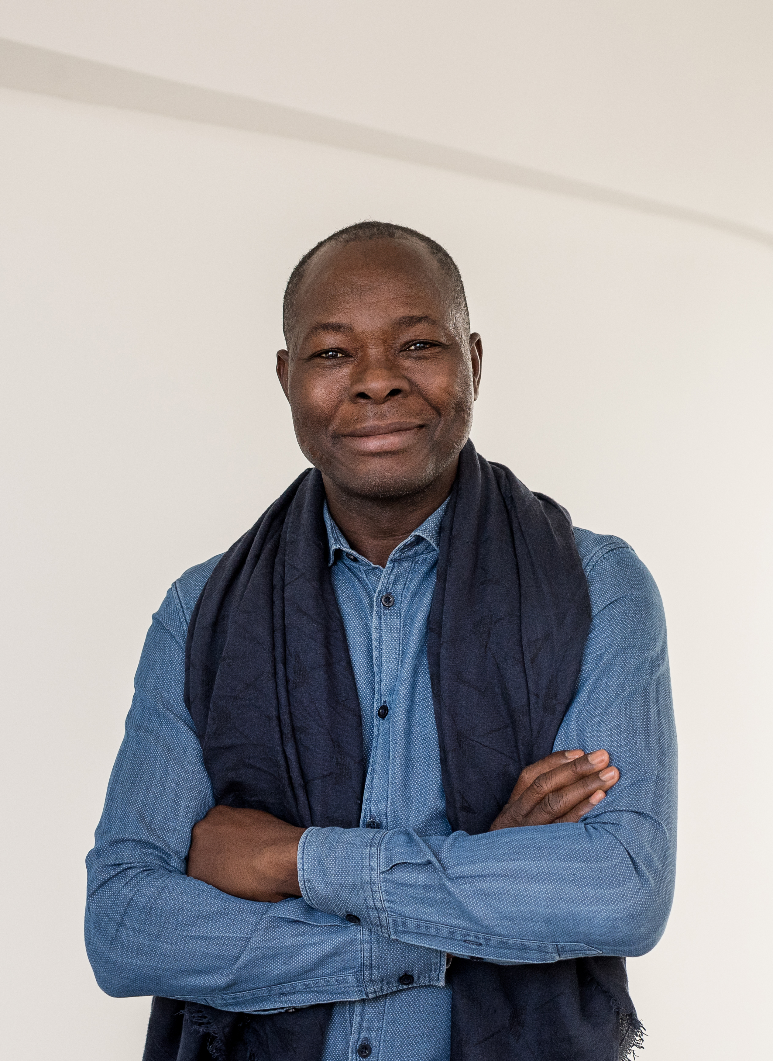 Prof. Francis Kere; Professor for 'Architectural Design and Participation', at the Technical University Munich (TUM); photographed on the 18.02.2019; photo:© Astrid Eckert / TU Munich